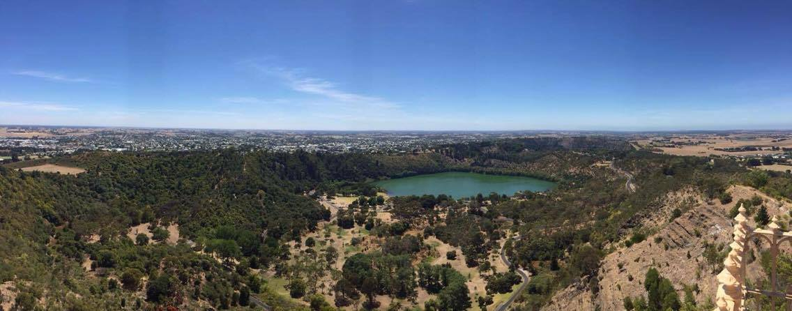 Panoram of the Valley Lakes, as taken from the Centenary Tower, in 2016.